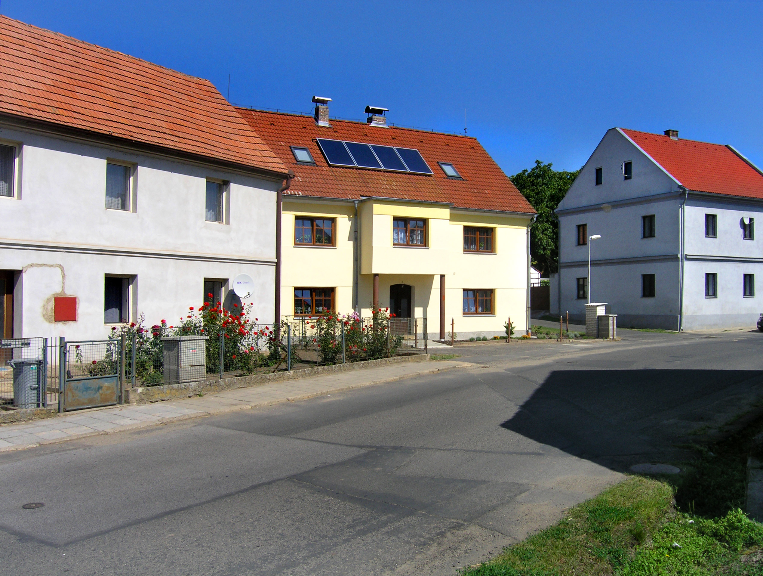 West part of Ploskovice, Czech Republic